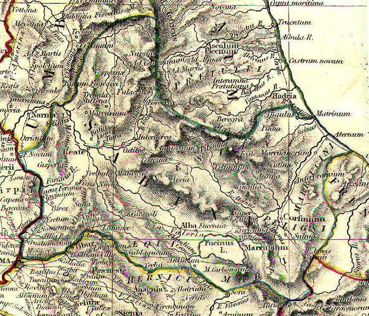 Reference map for Sabina